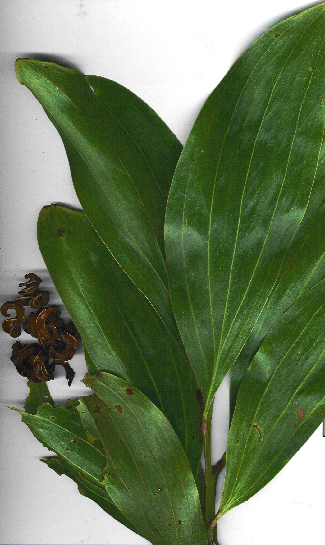 Acacia mangium (leaves and seed pods). Location: Maui, Hamakuapoko